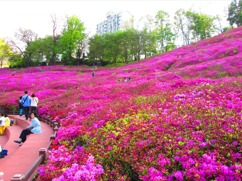 Royal Azaleas Hill in Gunpo, South Korea.